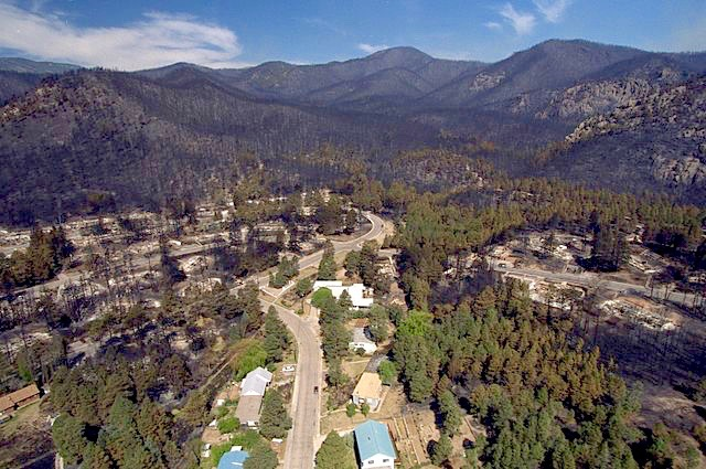 Los Alamos, NM, May 4, 2000 - An aerial image shows homes destroyed by the Cerro Grande fire. Photo by Andrea Booher/ FEMA News Photo